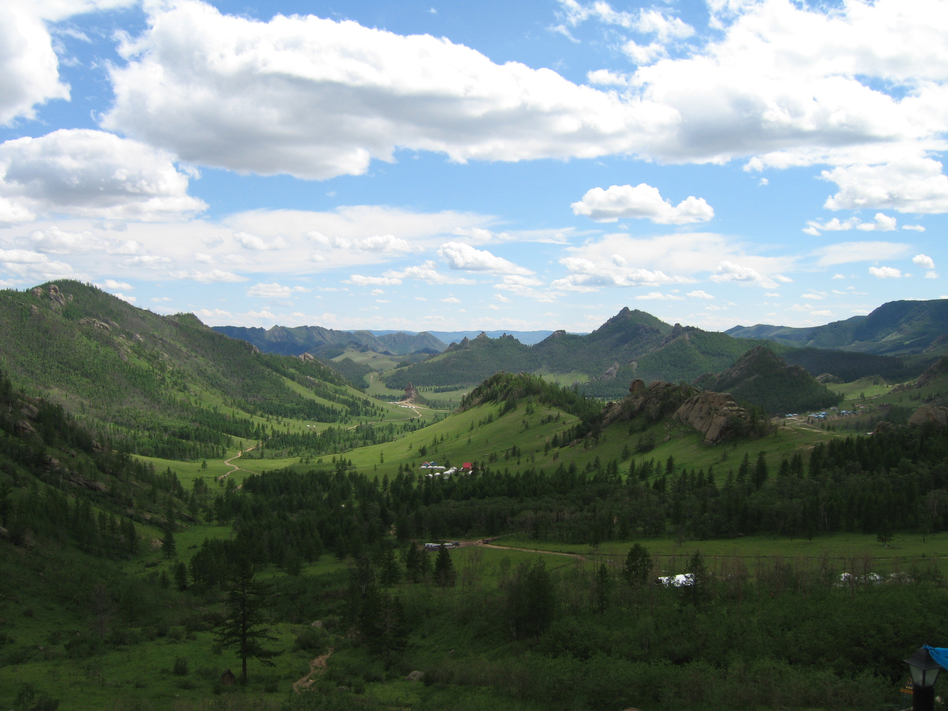 View from the monastery at Gorkhi-Terelj National Park, Mongolia.